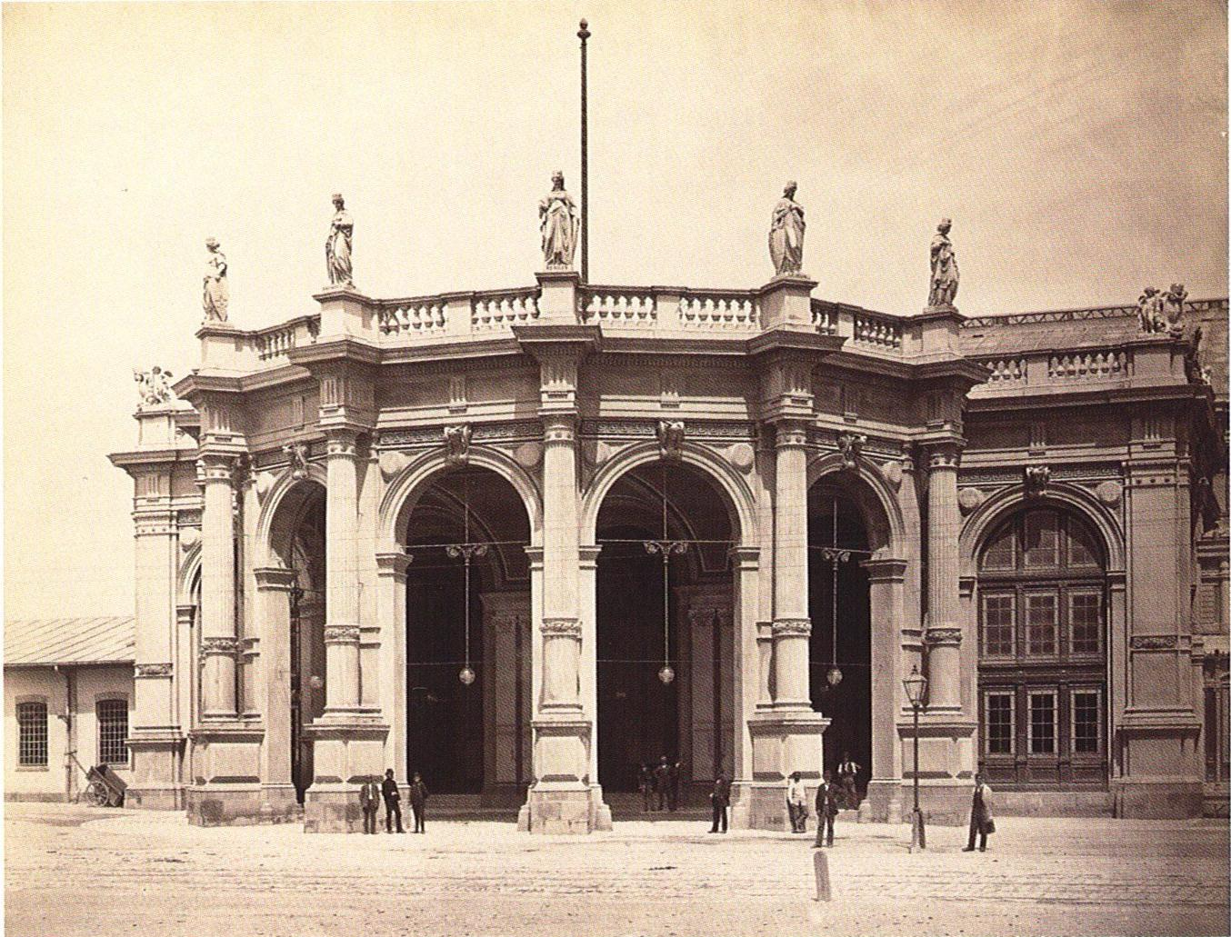 The Northwest Railway Station in Brigittenau, the XX. district of Vienna / Austria / EU. View around 1873.